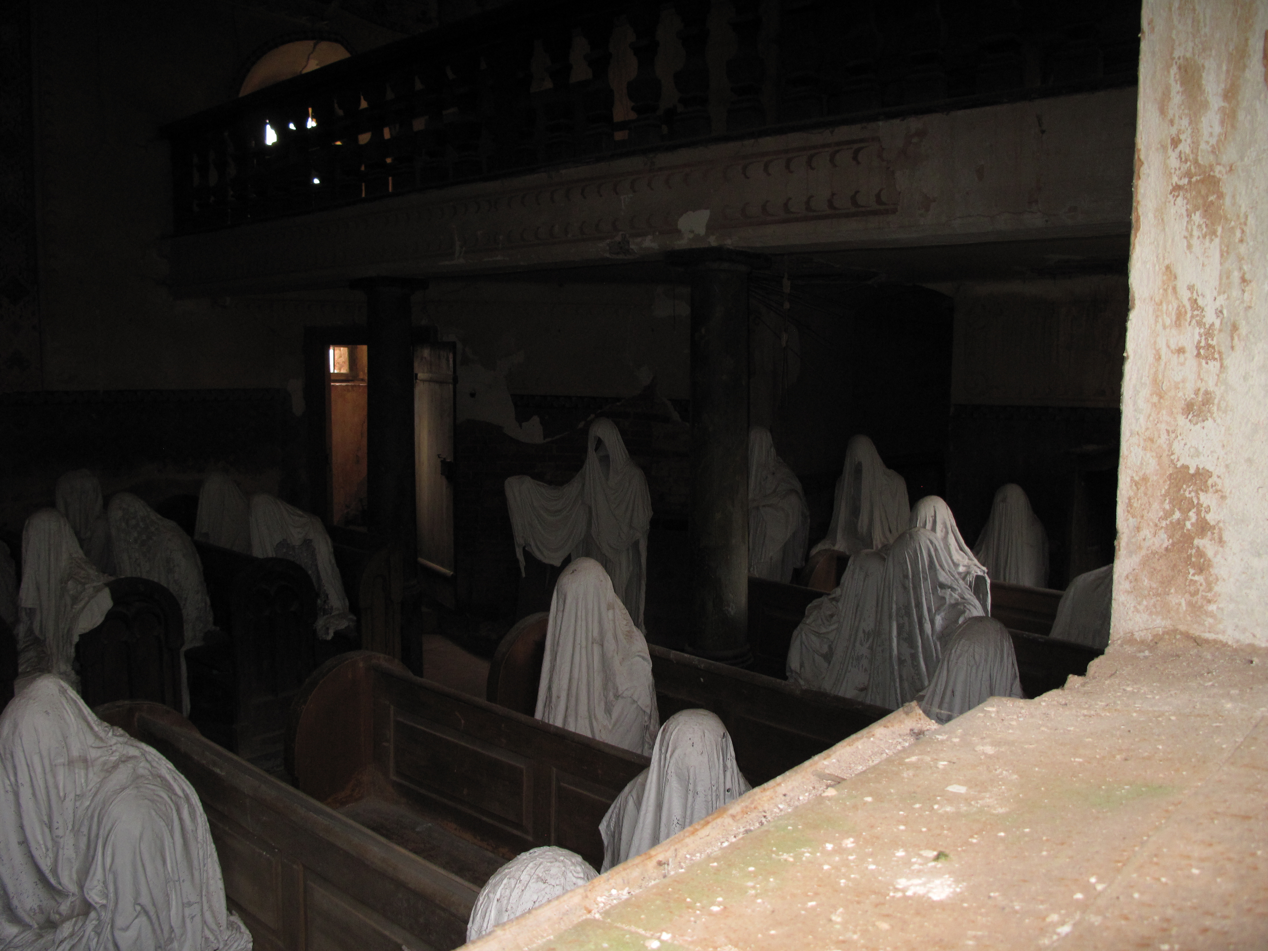 Jakub Hadrava: Má mysl. Exhibition in the church of Saint Jorge in Luková village (Manětín municipality), Pilsen-North District, Czech Republic.